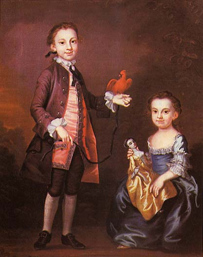 Portrait of Mann Page (1749–1803) and his sister Elizabeth Page (b. ca. 1751) of Gloucester County, Virginia